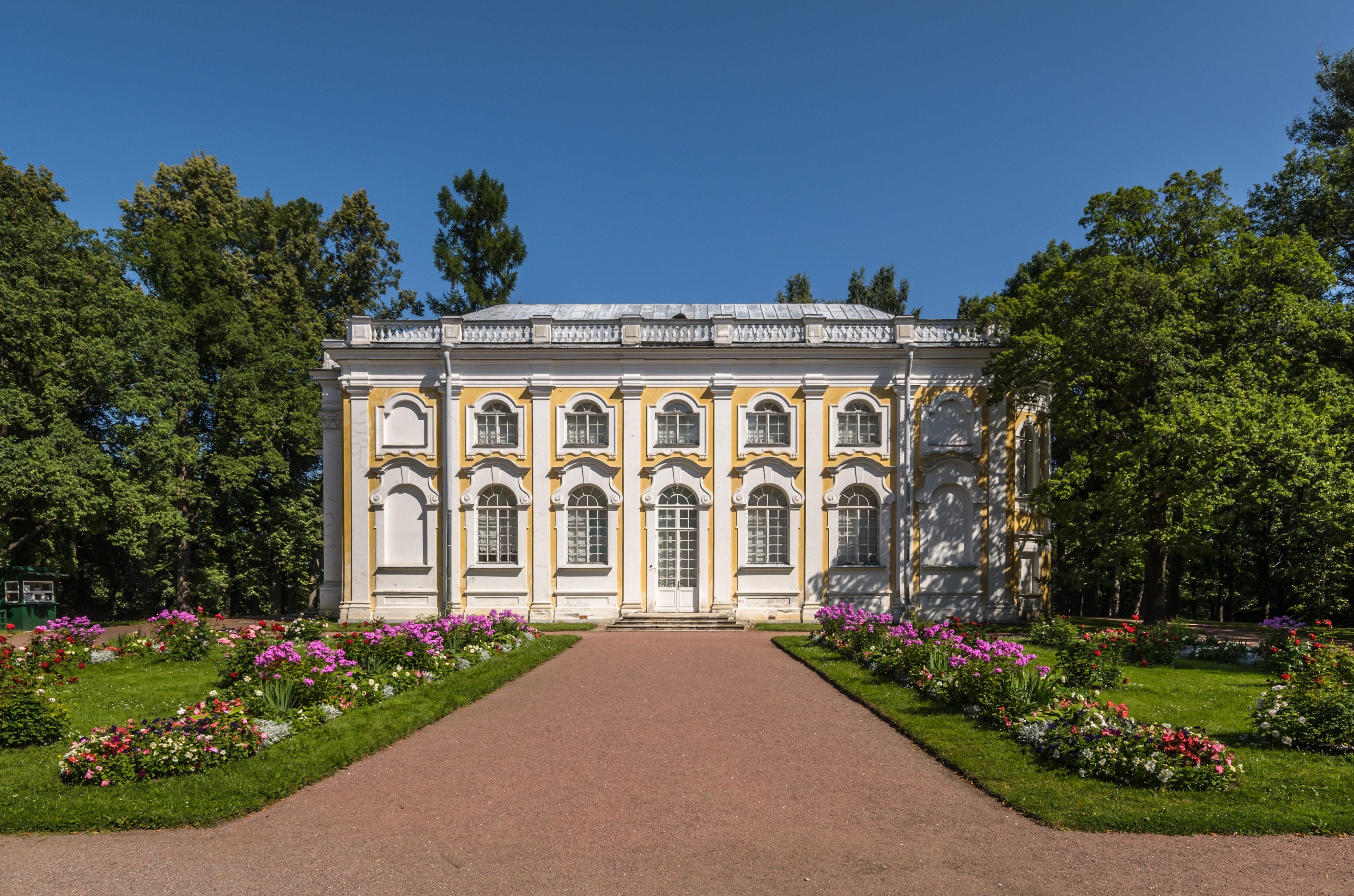 Hall of Stone in Oranienbaum Park